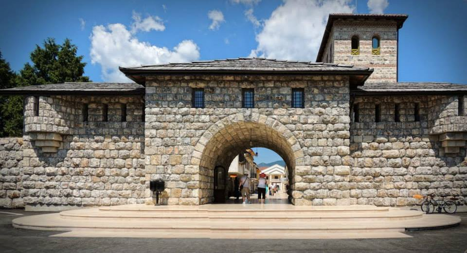 Main entrance of the Andricgrad